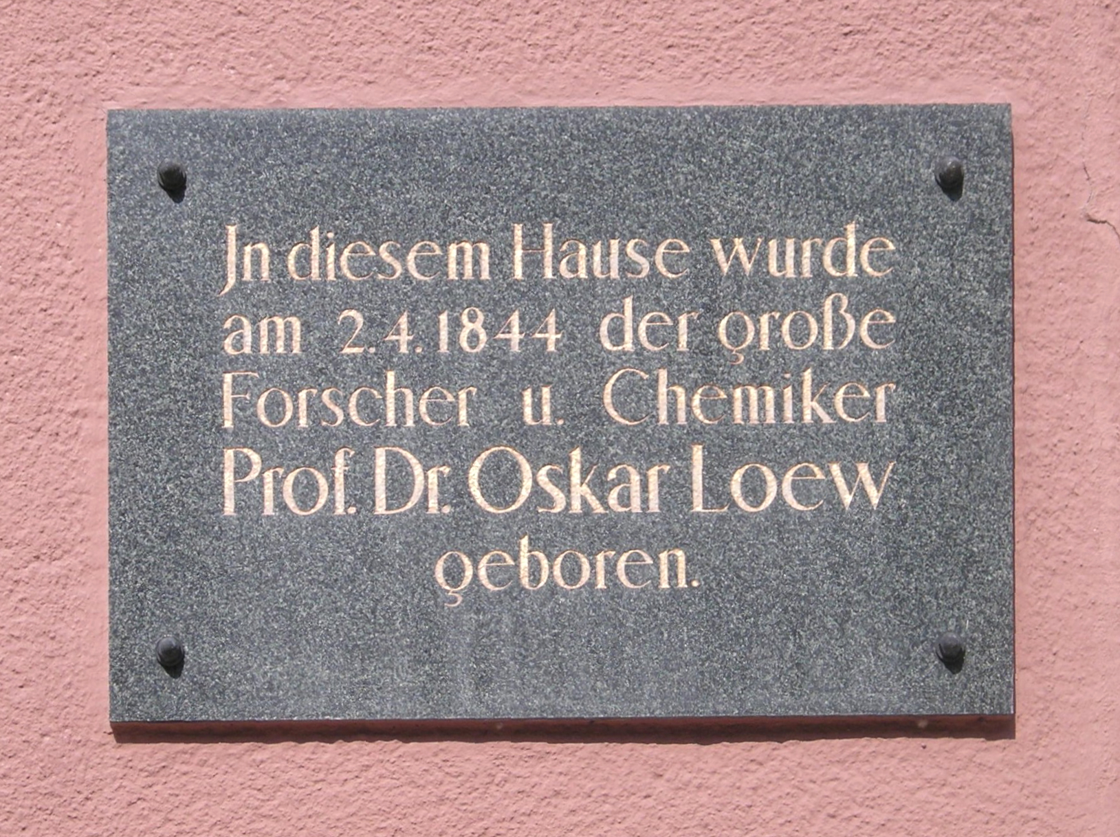 Memorial tablet to Oskar Loew, a notable chemist. It is mounted on his birthplace at Markt 35, Marktredwitz (Germany).